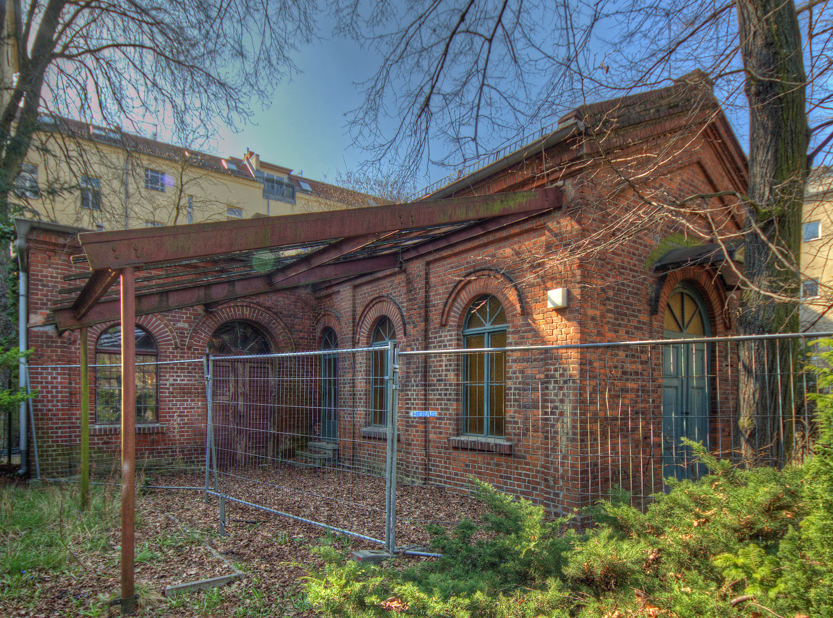 Berlin-Pankow, graveyard II at Gaillardstraße: former chapel of the cemetery